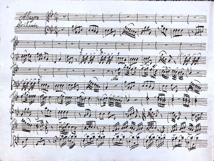 First page of Cembalo concerto in B-flat major by Alessandro Felici (1742-1772). Manuscript dated 1770 in Fondo Ricasoli at University of Louisville, Kentucky (part of cembalo)